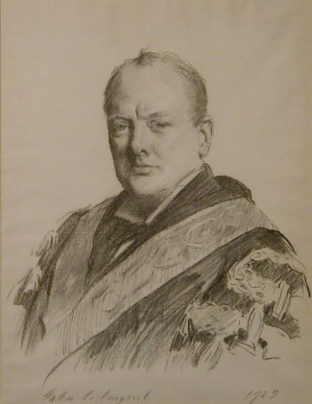 Portrait of Winston Churchill, robed as Chancellor of the Exchequer